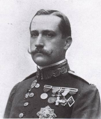 Prince Carlos of Bourbon-Two Sicilie, Duke of Calabria.